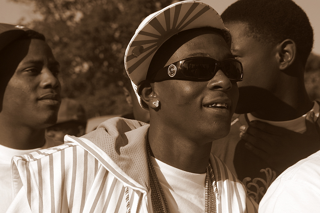 Image of American rapper Lil Boosie as photographed by Stefanie Richardson on May 19, 2007.